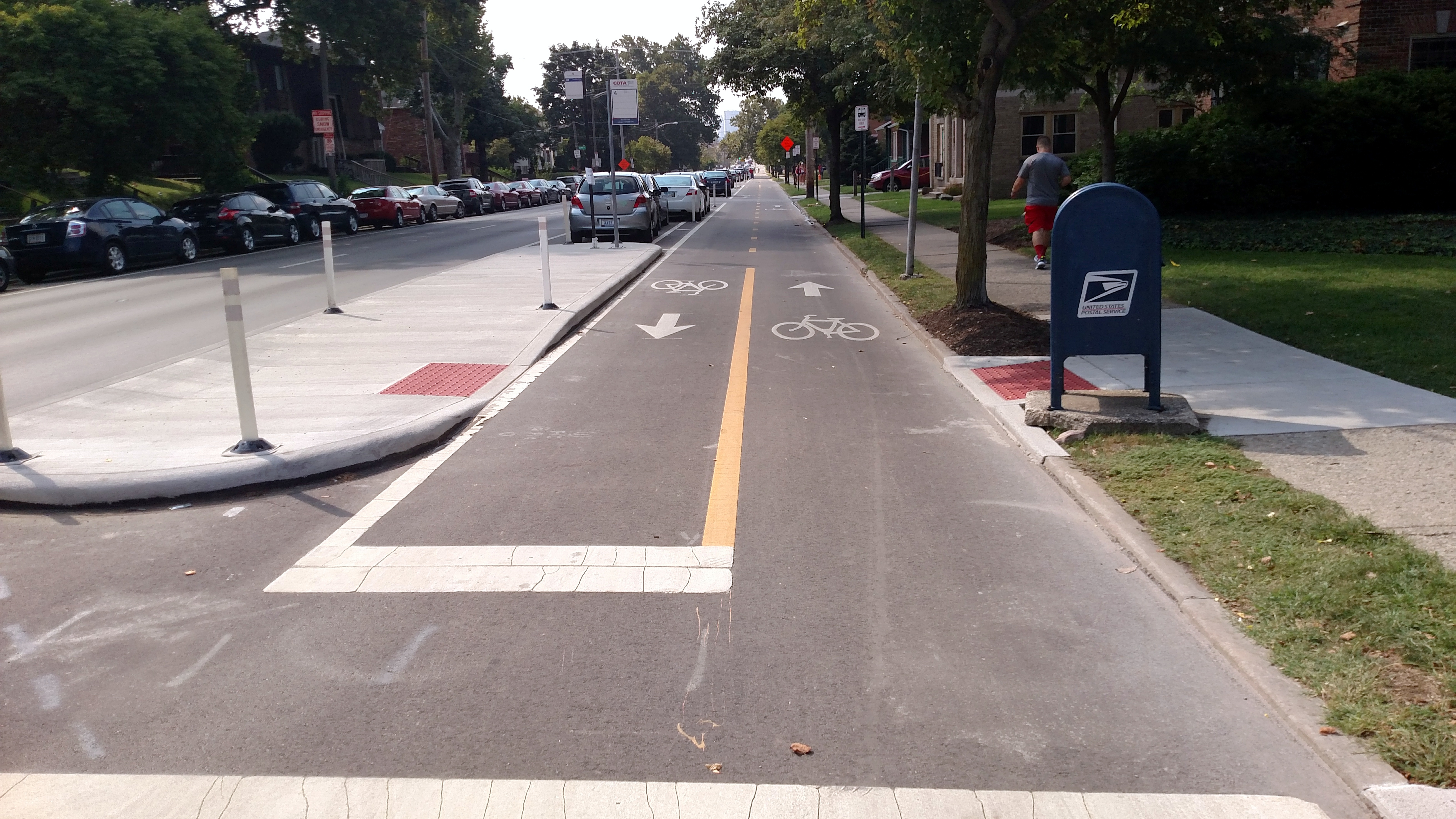 Two-way protected cycletrack and bus stop island on Summit Street (at 15th Street) in Columbus, Ohio in September 2016